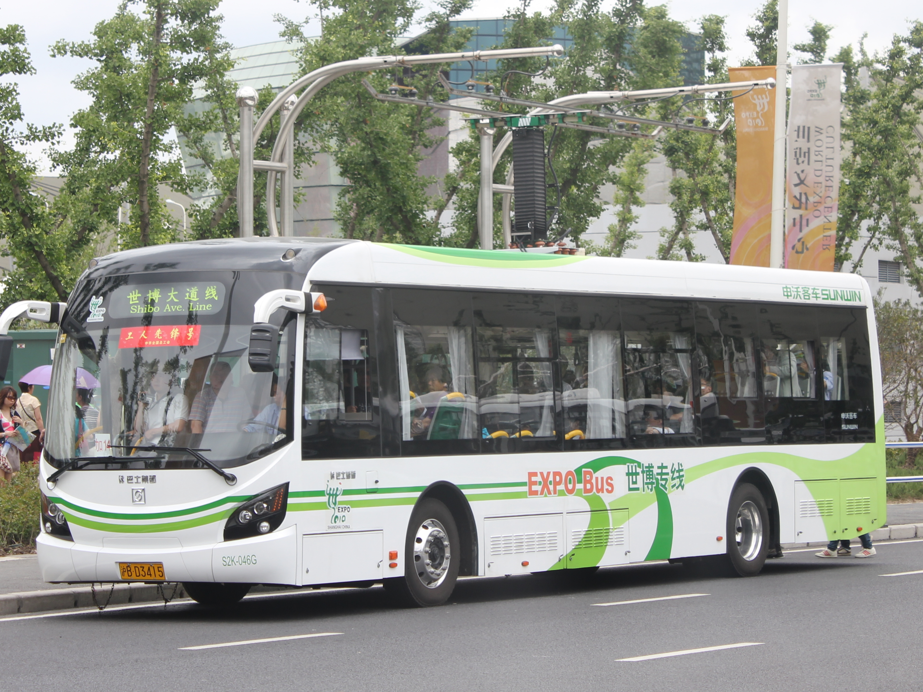 Shuttle Bus inside Shanghai Expo 2010